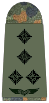 German Army rank insignia Stabshauptmann